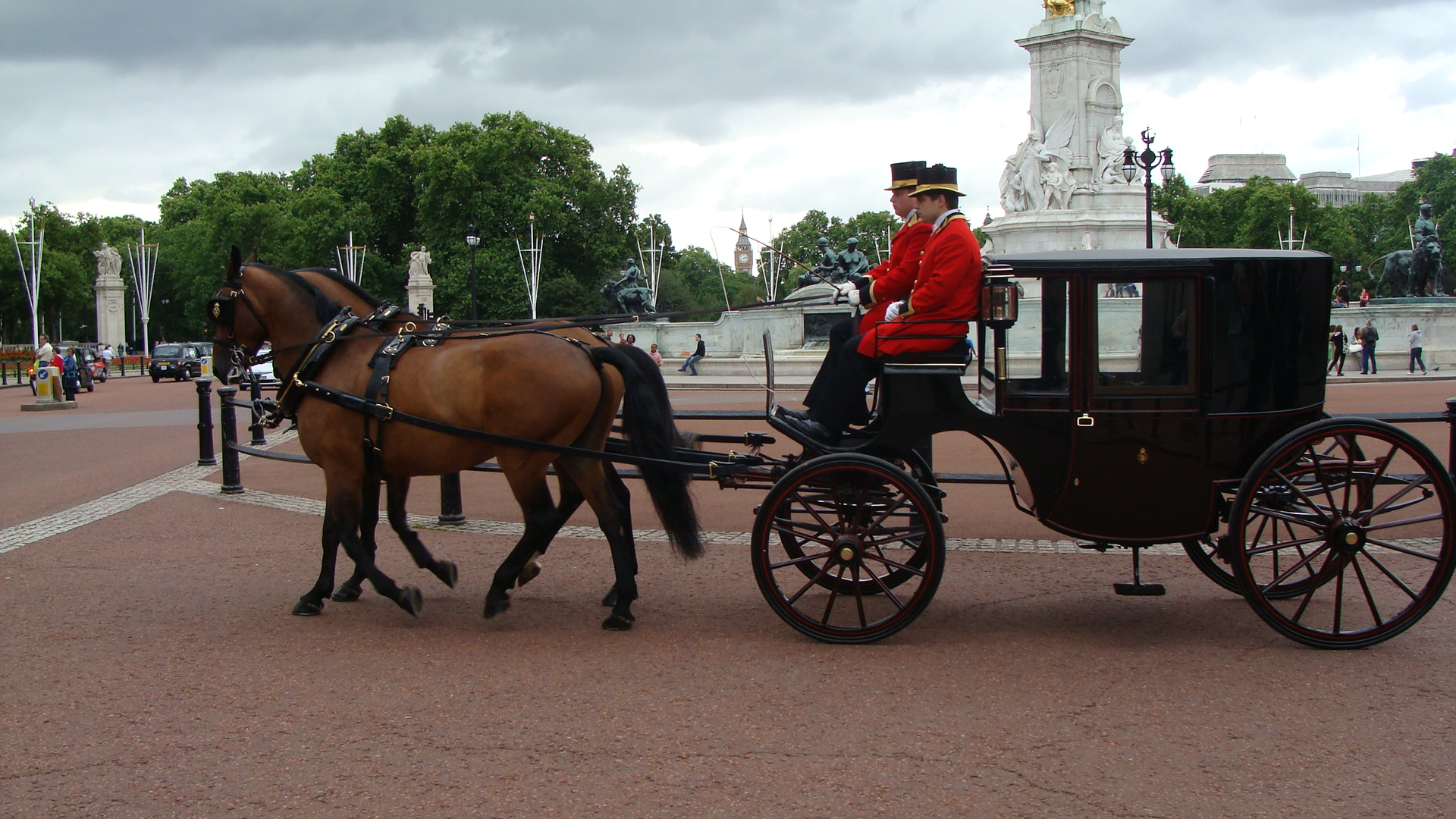 A Clarence (= a type of Brougham) from the Royal Mews, pulled by two Cleveland Bay horses, passing the Victoria Memorial outside Buckingham Palace (probably the daily messenger Brougham, delivering post between Buckingham and St James's Palaces).